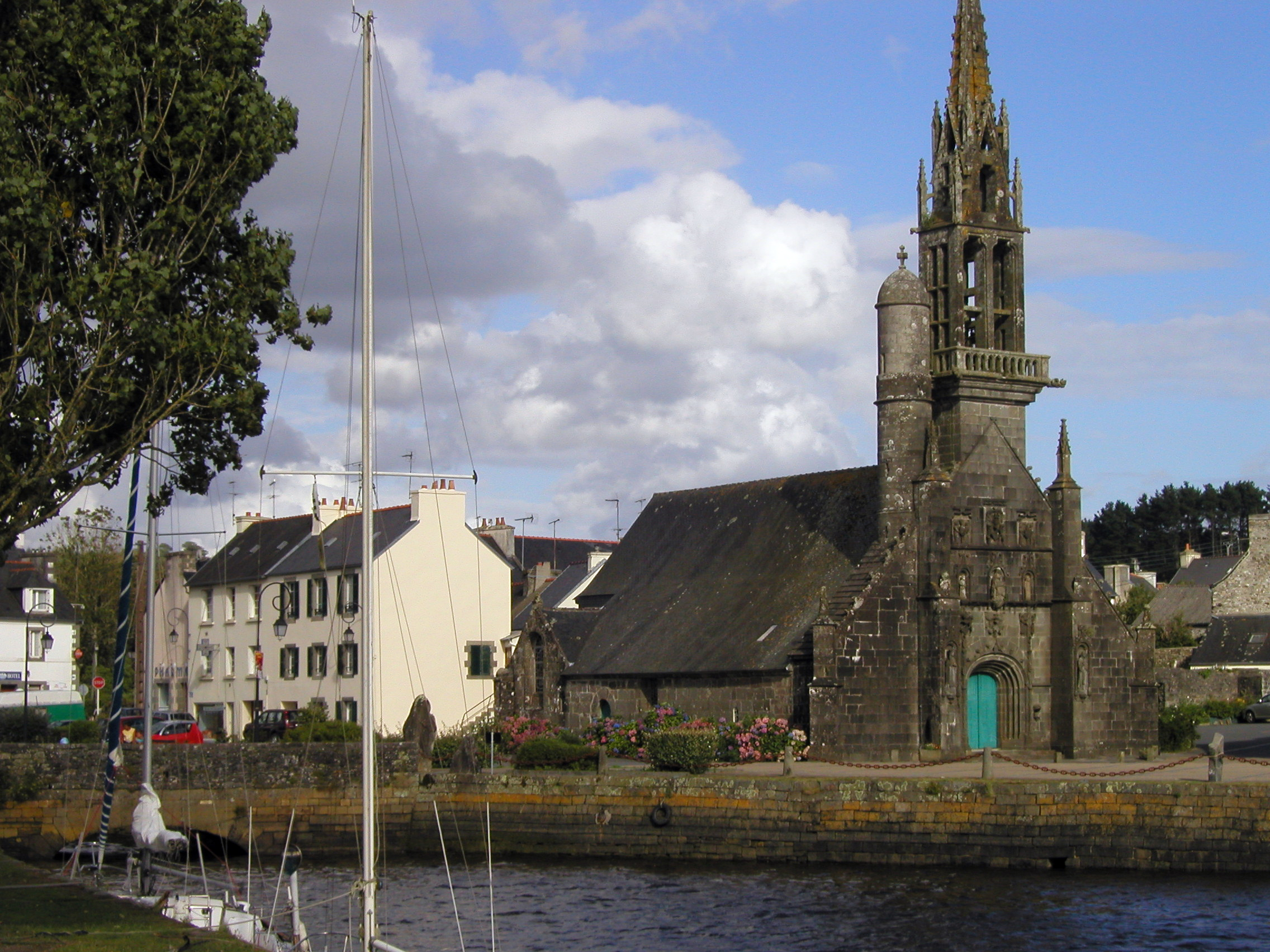 Kirche von Hôpital-Camfrout